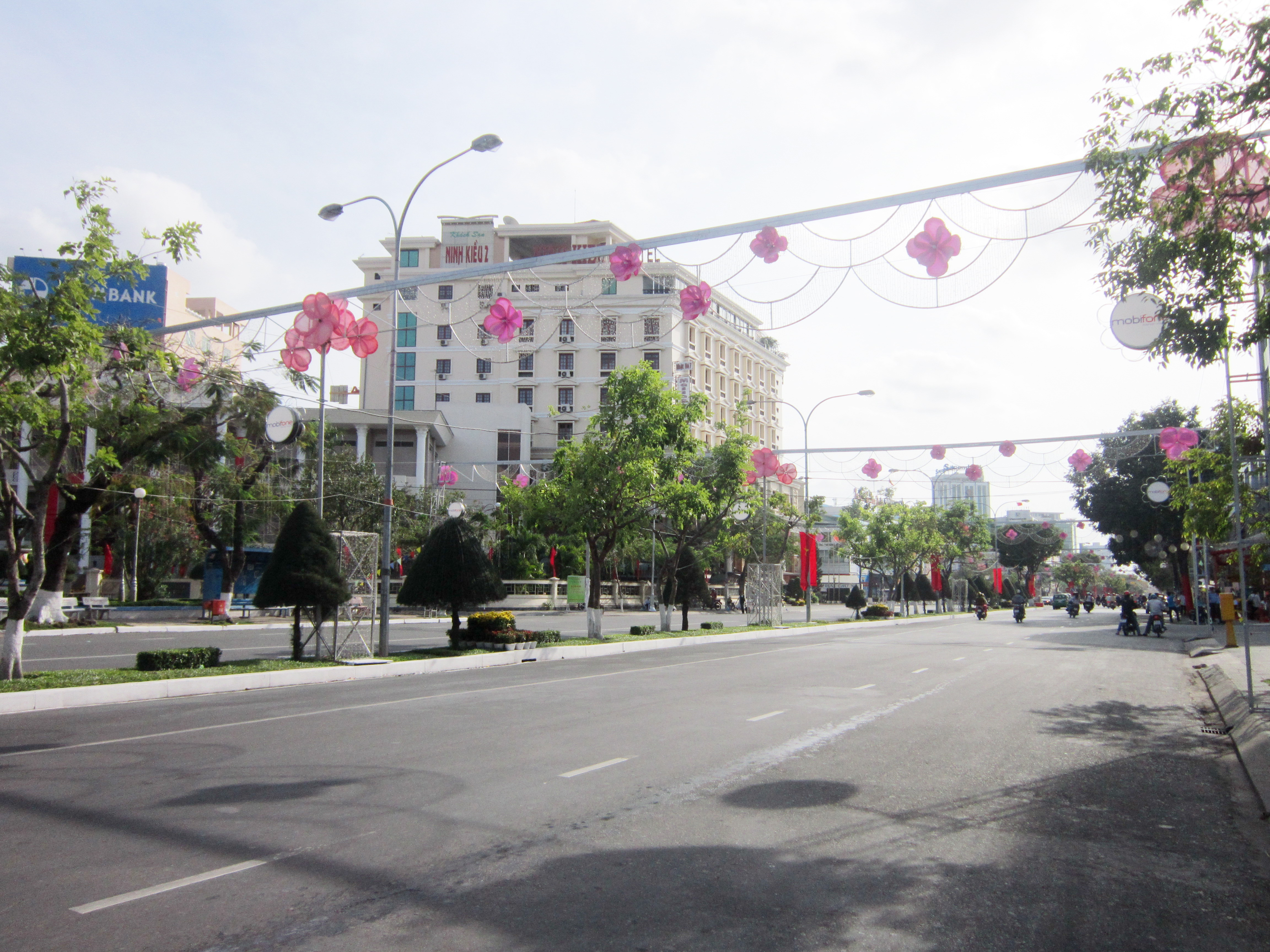 Đại lộ Hòa Bình trên địa bàn quận Ninh Kiều, TP. Cần Thơ, Việt Nam.